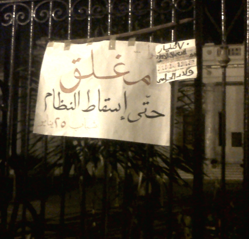 The Egyptian parliament building in Cairo during 9 February (Closed) -20110208-2324